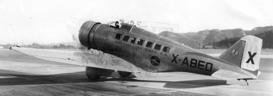 Aerovias Centrales Northrop Delta 1B X-ABED